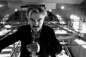 Charles Joris